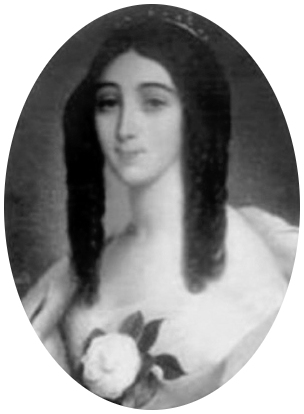 Marie Duplessis, painted by Édouard Viénot.